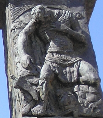 The Knesset Menorah, Jerusalem (detail - Simon bar Kokhba)